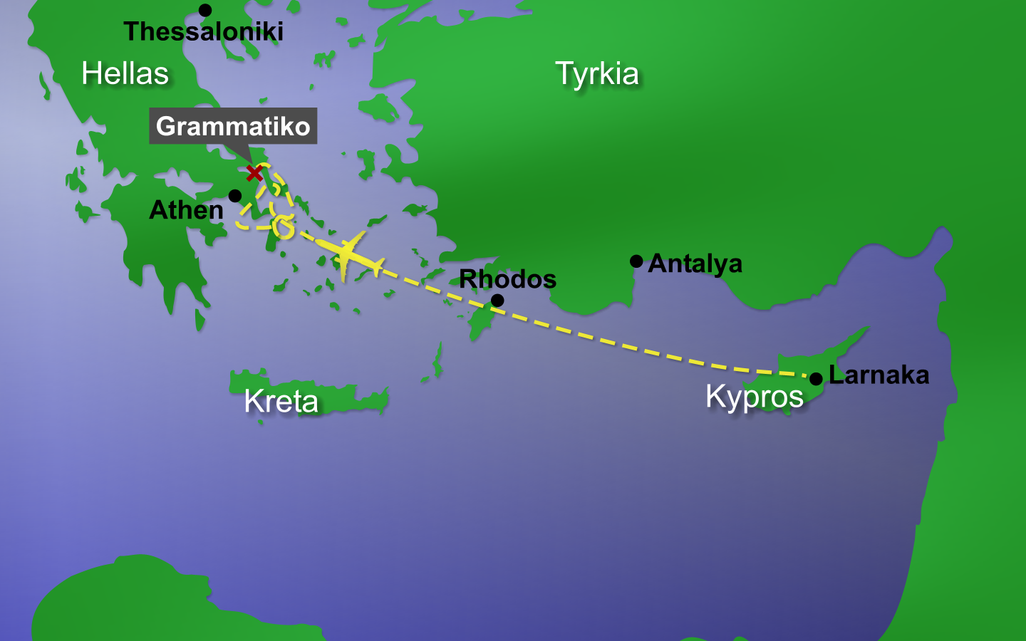 Map of Helios Airways Flight 522. Helios Airwyas Flight 522, crashed on August 14, 2005 near the community of Grammatiko in Greece. The map shows, how the flight proceeded. First, the autopilot controled the airplane in the direction of Athens airport. Then the airplane flew to the south and flew loops over the Ägais for about three hours. After that, the airplane flew in the direction of Athens airport again, until it crashed nearby Grammatiko.